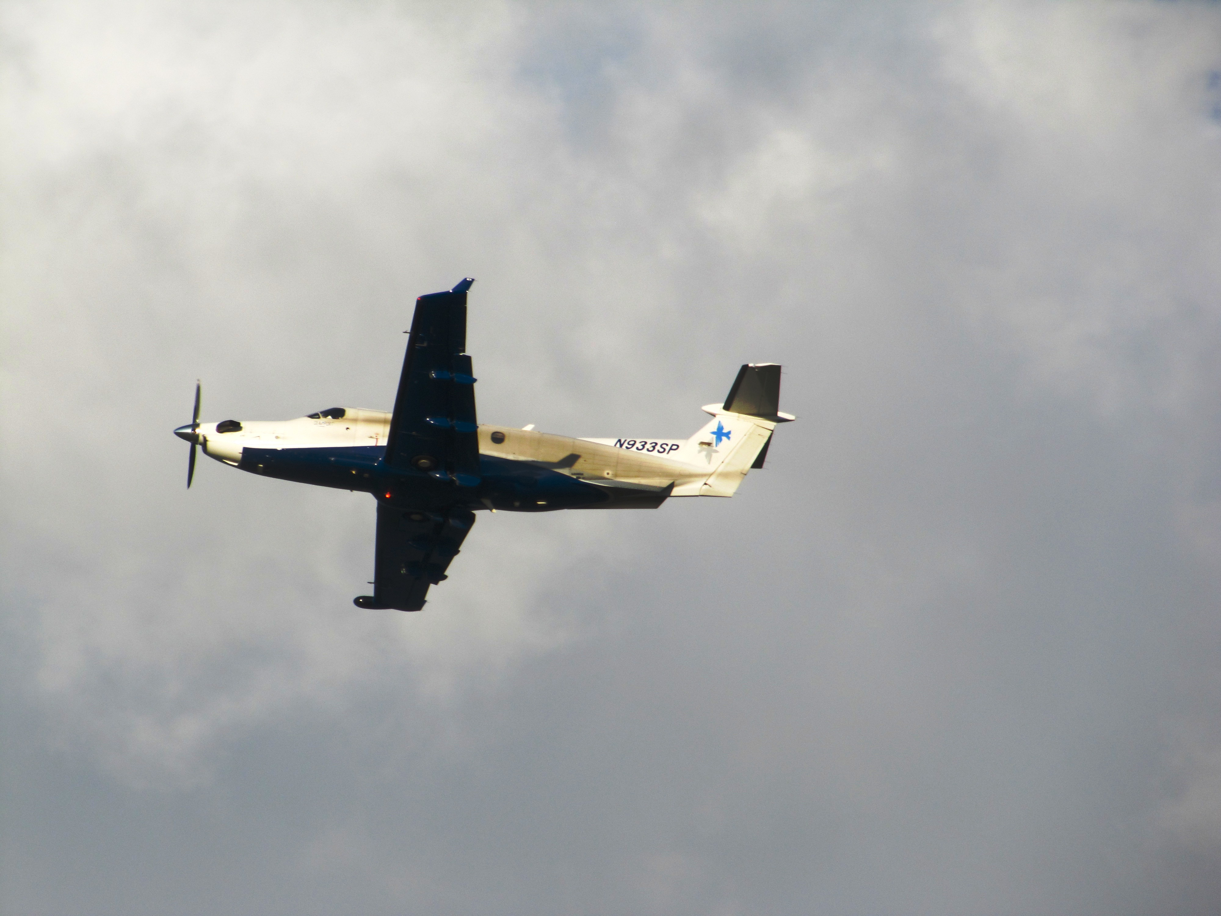 SeaPort Airlines Pilatus PC-12 Portland International Airport